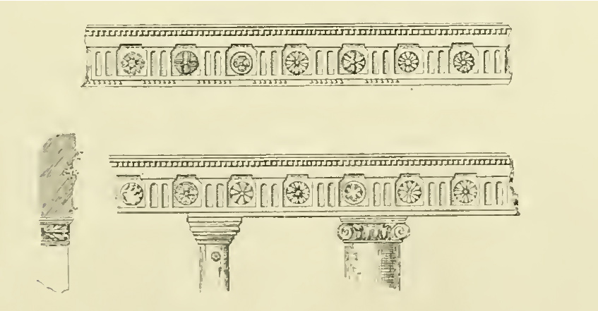 Qarawat Bani Hassan, West Bank, Palestine